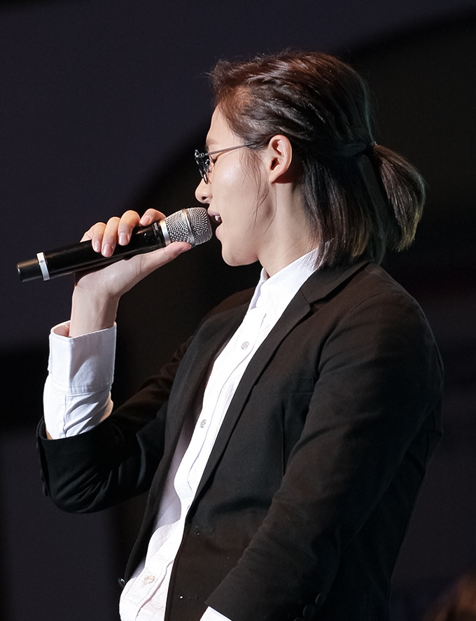 CNU at the Yongsan I-Park Mall em November 2, 2013.